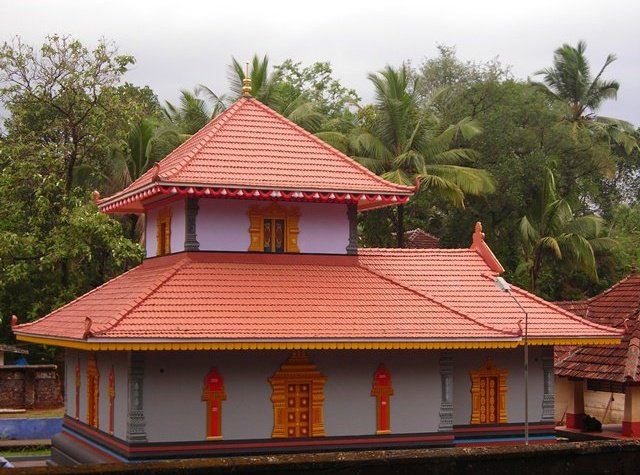 A distant View of Thalikunnu Shiva Temple of Temple